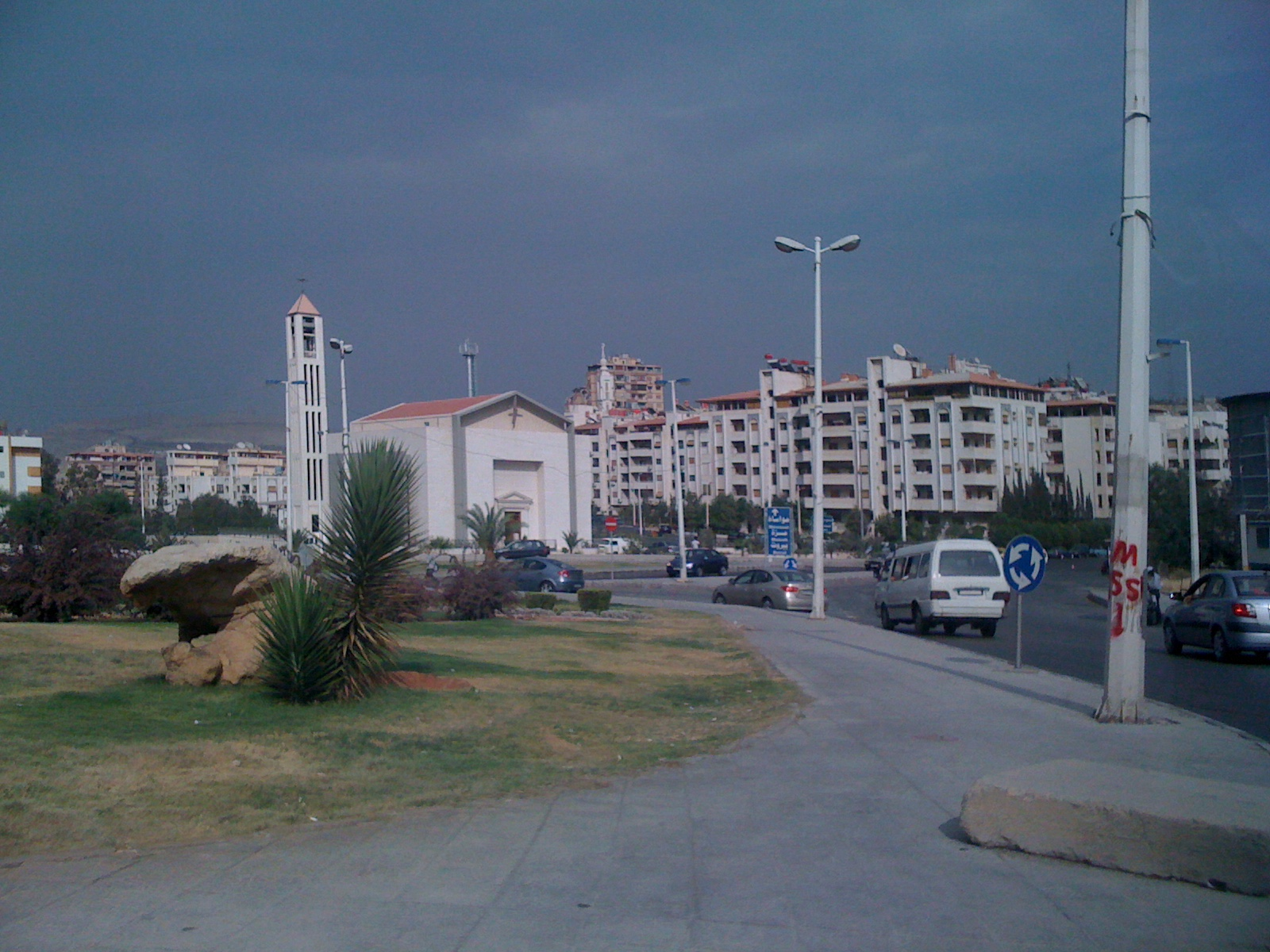 Dummar Church and Mosque in background